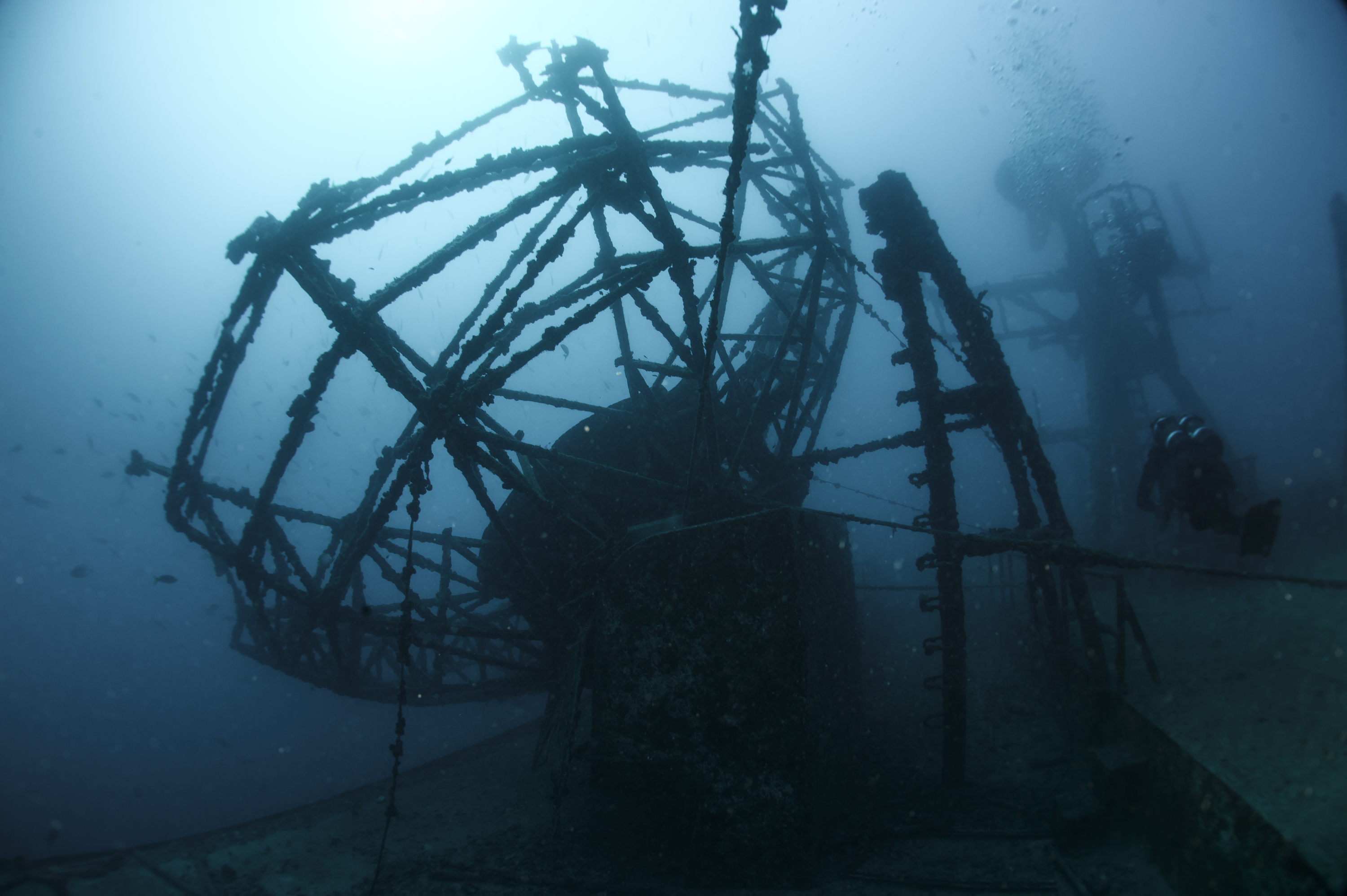 U.S. Navy Construction Mechanic 1st Class Brandon Burrow, assigned to Underwater Construction Team 1 (UCT 1), surveys the wreckage of USNS General Hoyt S. Vandenberg (T-AGM-10) during diver training aboard the U.S. Army large landing craft USAV Matamoros (LCU-2026). Diver training is a two-week, joint training evolution designed to reinforce standard operating procedures, qualify personnel, maintain proficiency, and evaluate dive protocol during scuba, surface supplied and recompression chamber operations. The General Hoyt S. Vandenberg was sunk as an artificial reef off Key West, Florida (USA), on 27 May 2009.